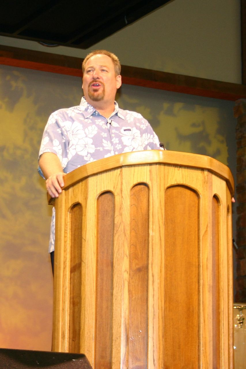 Pastor Rick Warren at Saddleback Church.